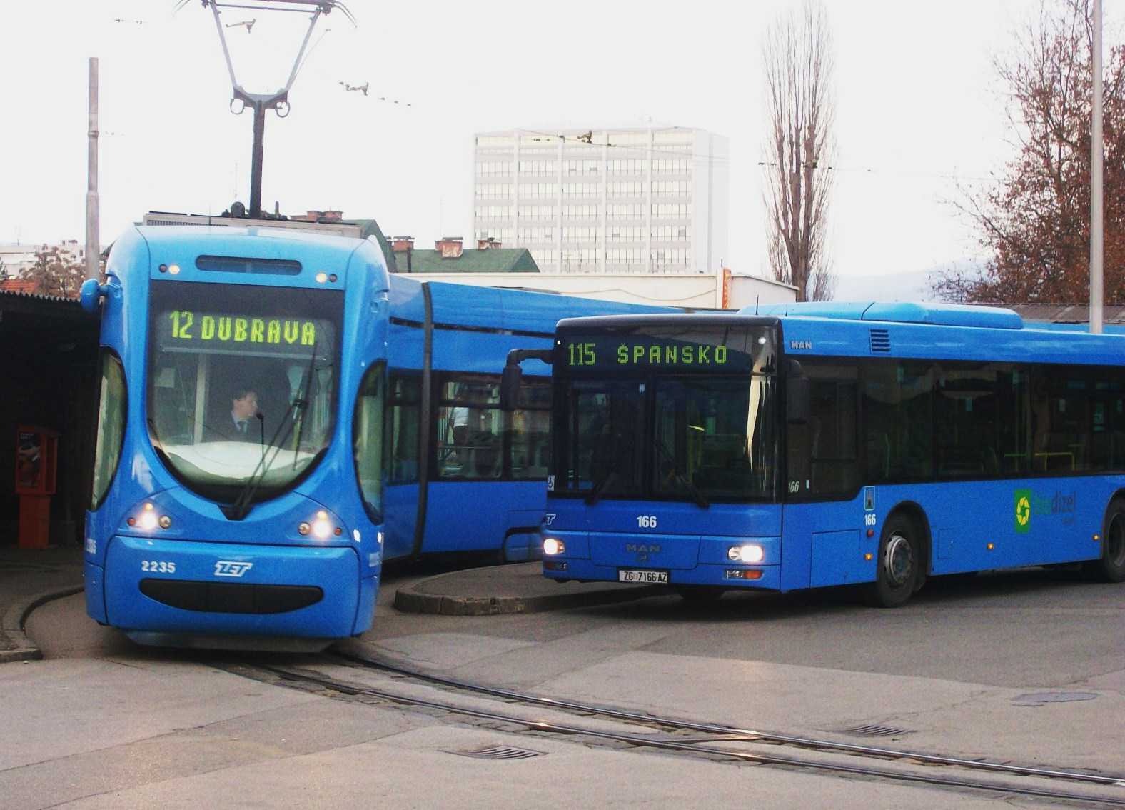 Crotram TMK 2200 tram (#2235) and MAN NG313 bus (#166) in Zagreb, Croatia. Tram built 2006, bus built 2004.